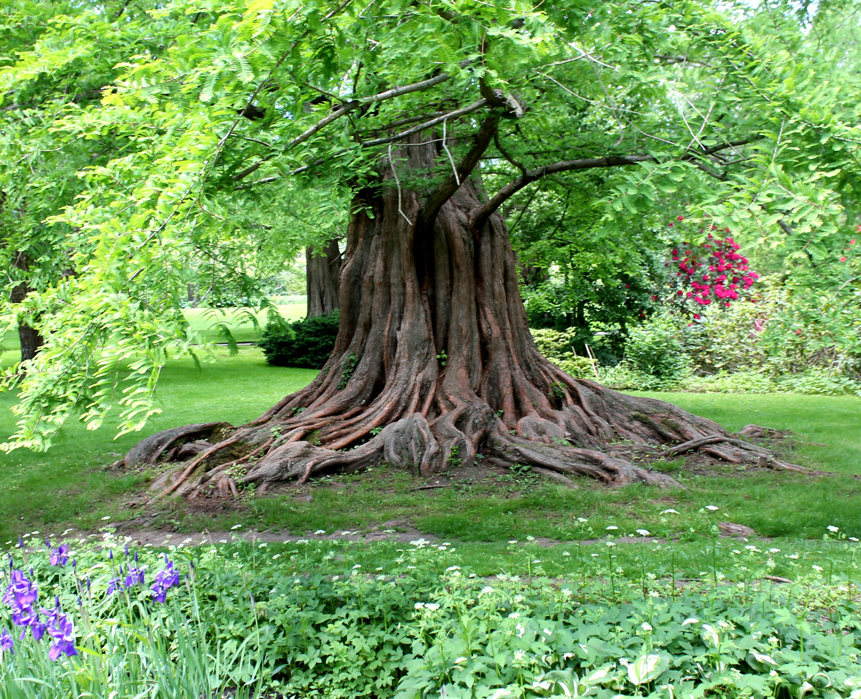 Bailey Arboretum scene, Lattingtown, New York